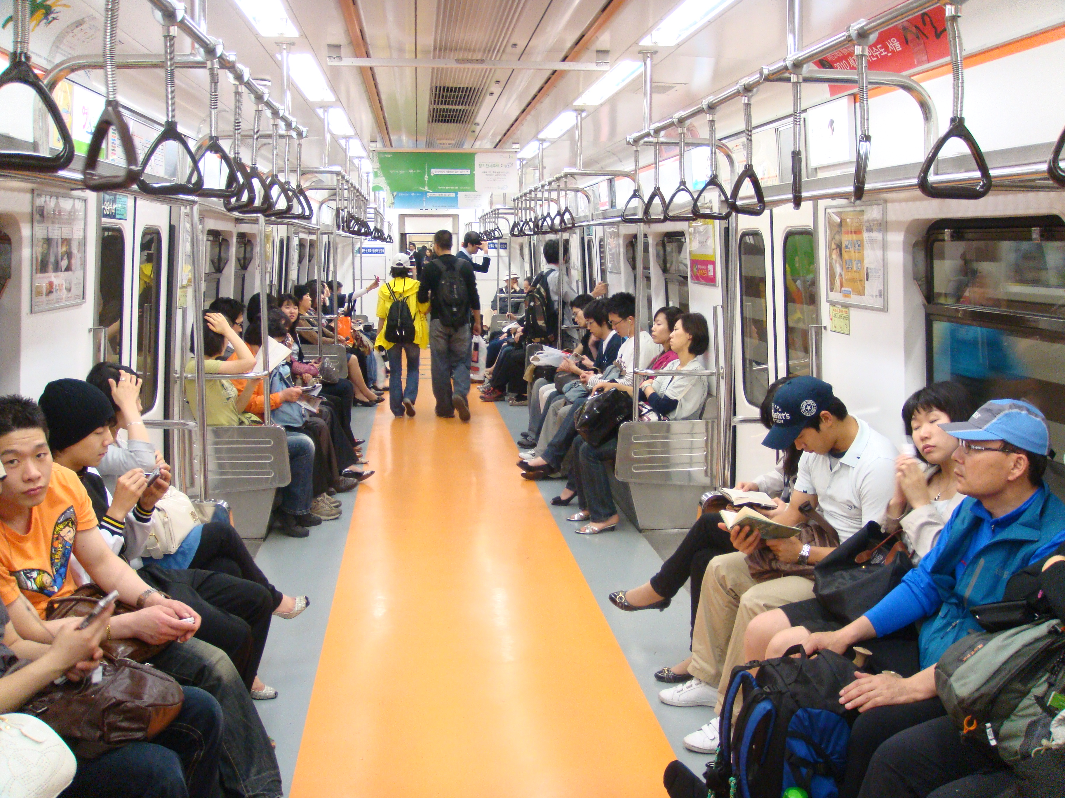 Refurbished car interior of the Seoul Metro Class 3000.